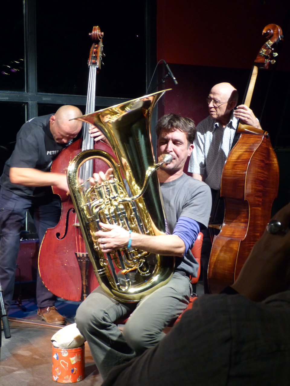 Peter Jacquemyn (B), Barre Phillipps (USA) and Carl Ludwig Hübsch (D) during the Memorial for Peter Kowald at Stadtgarten Cologne, Germany, September 21st, 2012